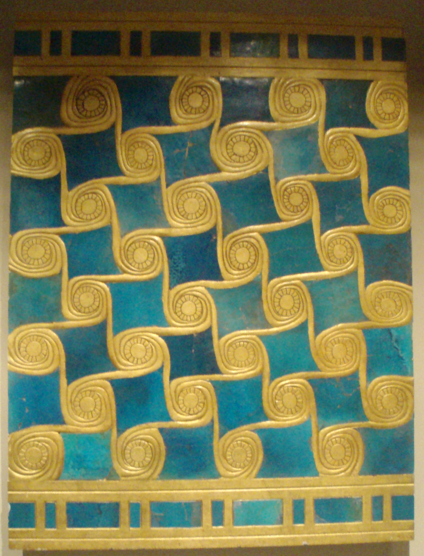 Faience architectural decoration from the palace of Amenhotep III at Malkata, Thebes. From the 18th dynasty, circa 1417-1379 B.C.